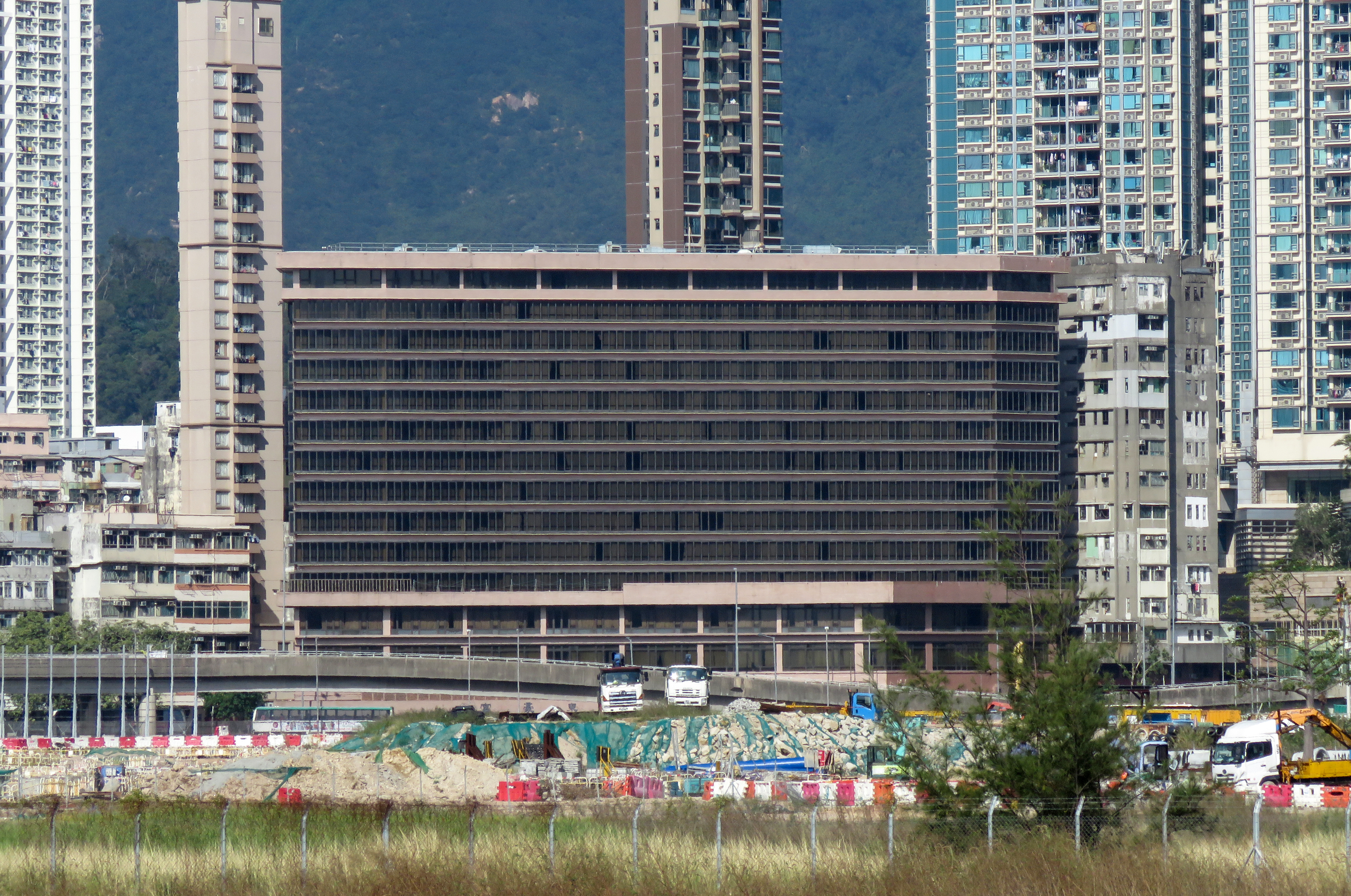 This is a view from the site of Kai Tak Airport, currently on Citybus Route 608.